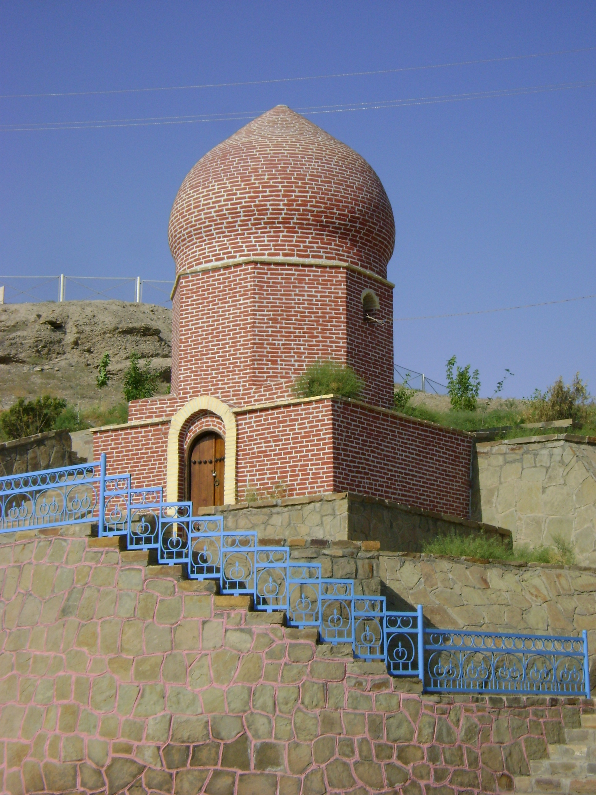 Haji Rufai Bey mosque - 18th century